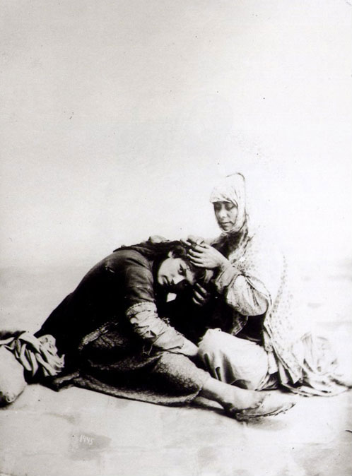 Roma women. One of Antoin Sevruguin's historical Iran photographs.